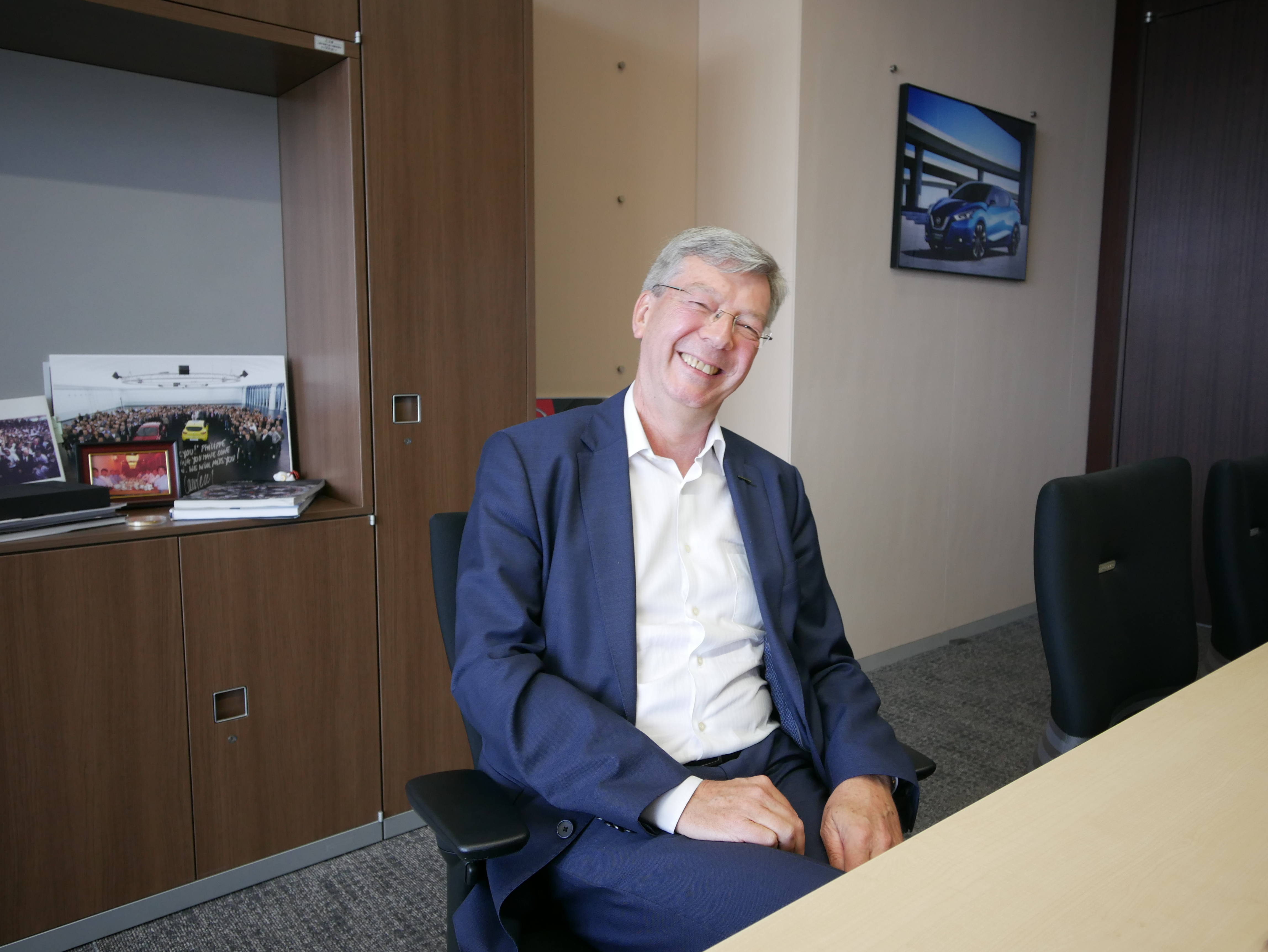 Philippe Klein, Chief Planning Officer Nissan, at his office in Yokohama, Japan. Picture by Bertel Schmitt